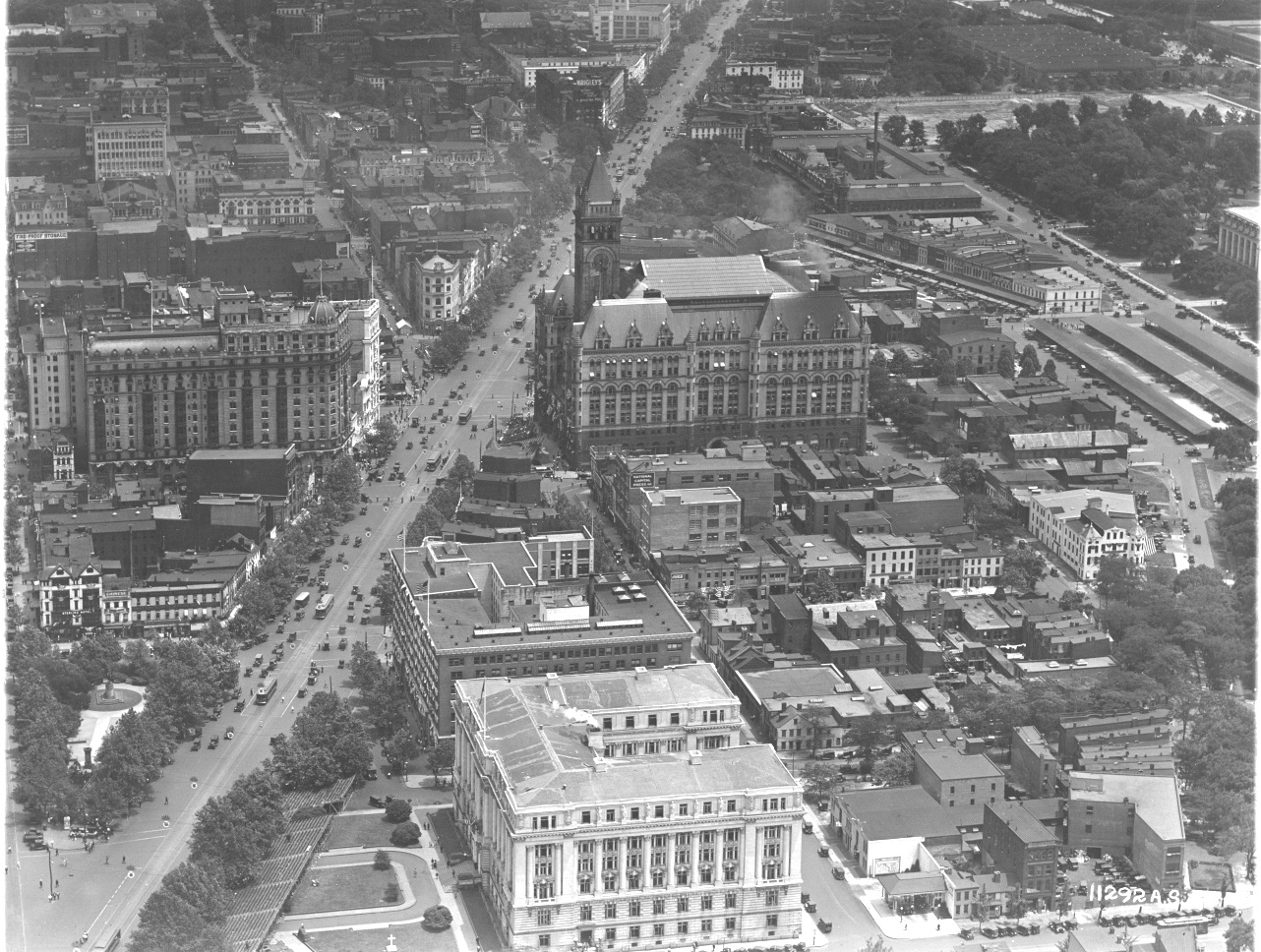 Original Caption: Aerial Photograph of Pennsylvania Avenue in Washington, DC including the District Building and the Post Office Building, 1923 U.S. National Archives’ Local Identifier: 18-AA-151-58 From: "Airscapes" of American and Foreign Areas, compiled 1917 - 1964 Created By: War Department. Army Air Forces. (06/20/1941 - 09/26/1947) Production Date: 1923 Scope and Content: This photograph was taken by the Army Air Corps stationed at Bolling Field and looks east across Pennsylvania Avenue. Persistent URL: Repository: National Archives at College Park - Still Pictures (RD-DC-S) For information about ordering reproductions of photographs held by the Still Picture Unit, visit: Reproductions may be ordered via an independent vendor. NARA maintains a list of vendors at